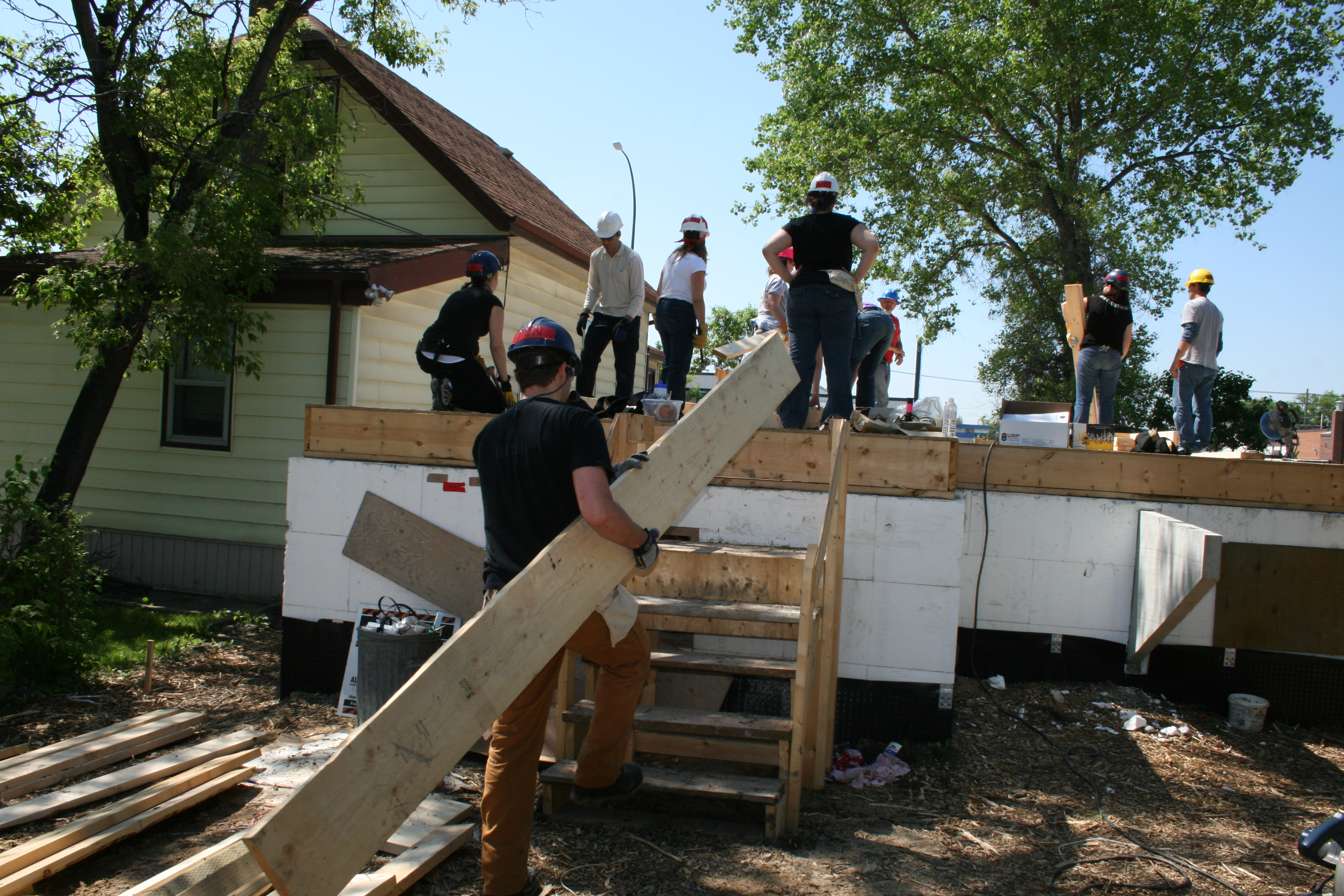 National Leasing employee's volunteering at the Habitat For Humanity Winnipeg Build.